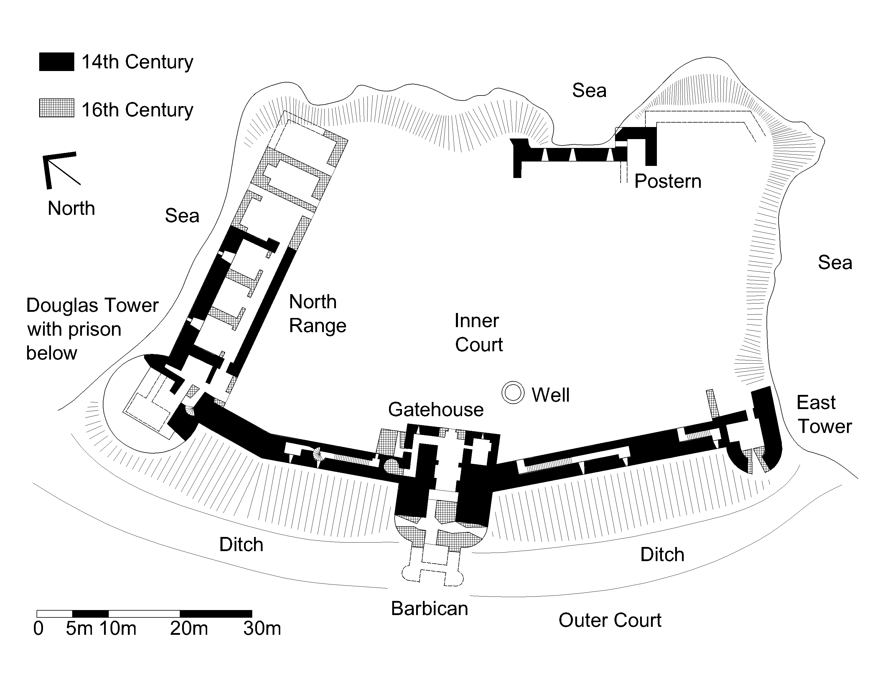 Plan of Tantallon Castle, drawn by me, based on plans published by the Royal Commission on Ancient and Historic Monuments Scotland, and in Mike Salter's Castles of Lothian and Borders (Folly, 1994, p.86)